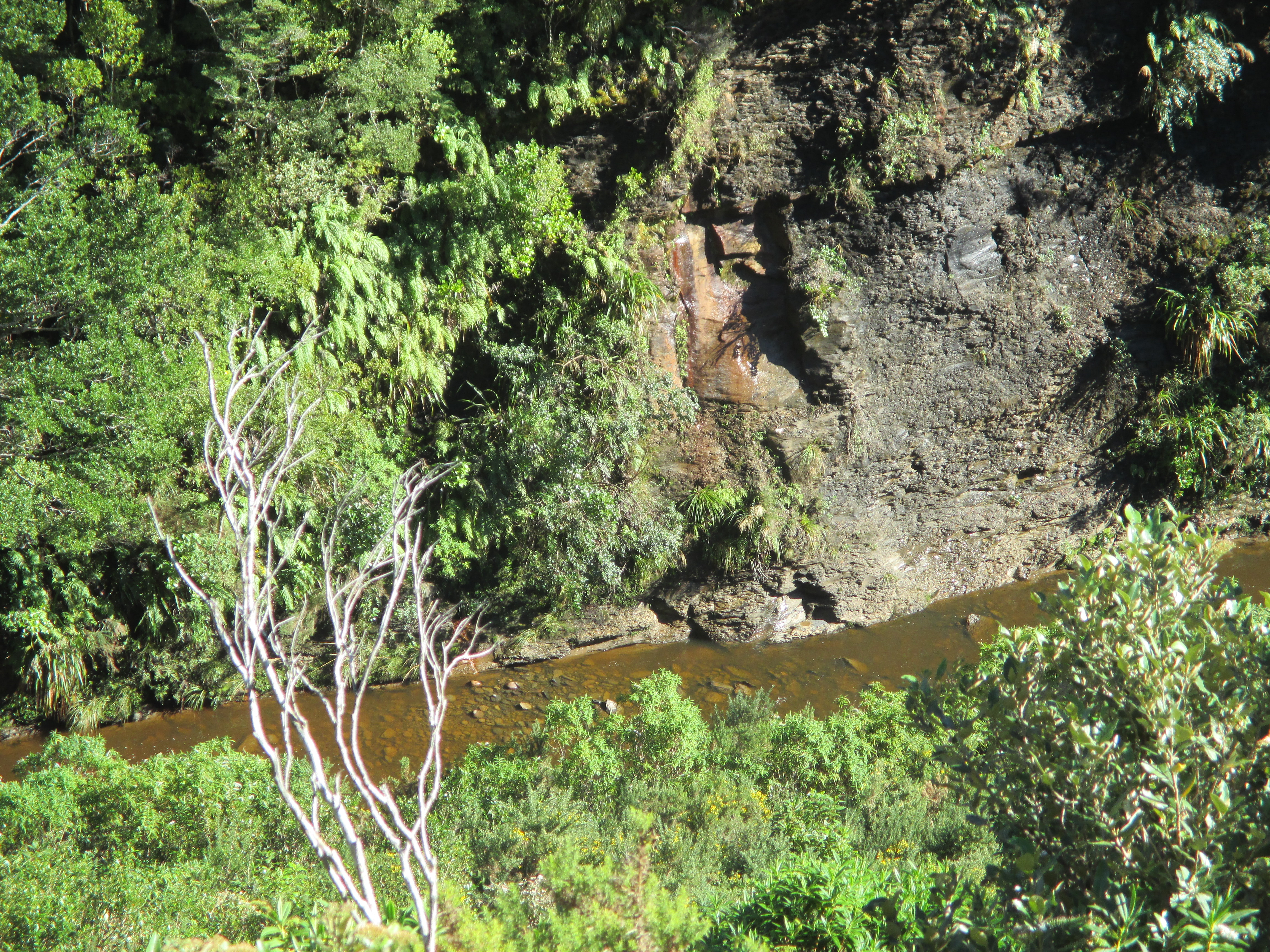 The river bed at the Moody Creek Mine, 7 Mile Creek / Waimatuku, Dunollie, New Zealand contains evidence of a devastating event on terrestrial plant communities at the Cretaceous-Tertiary boundary.